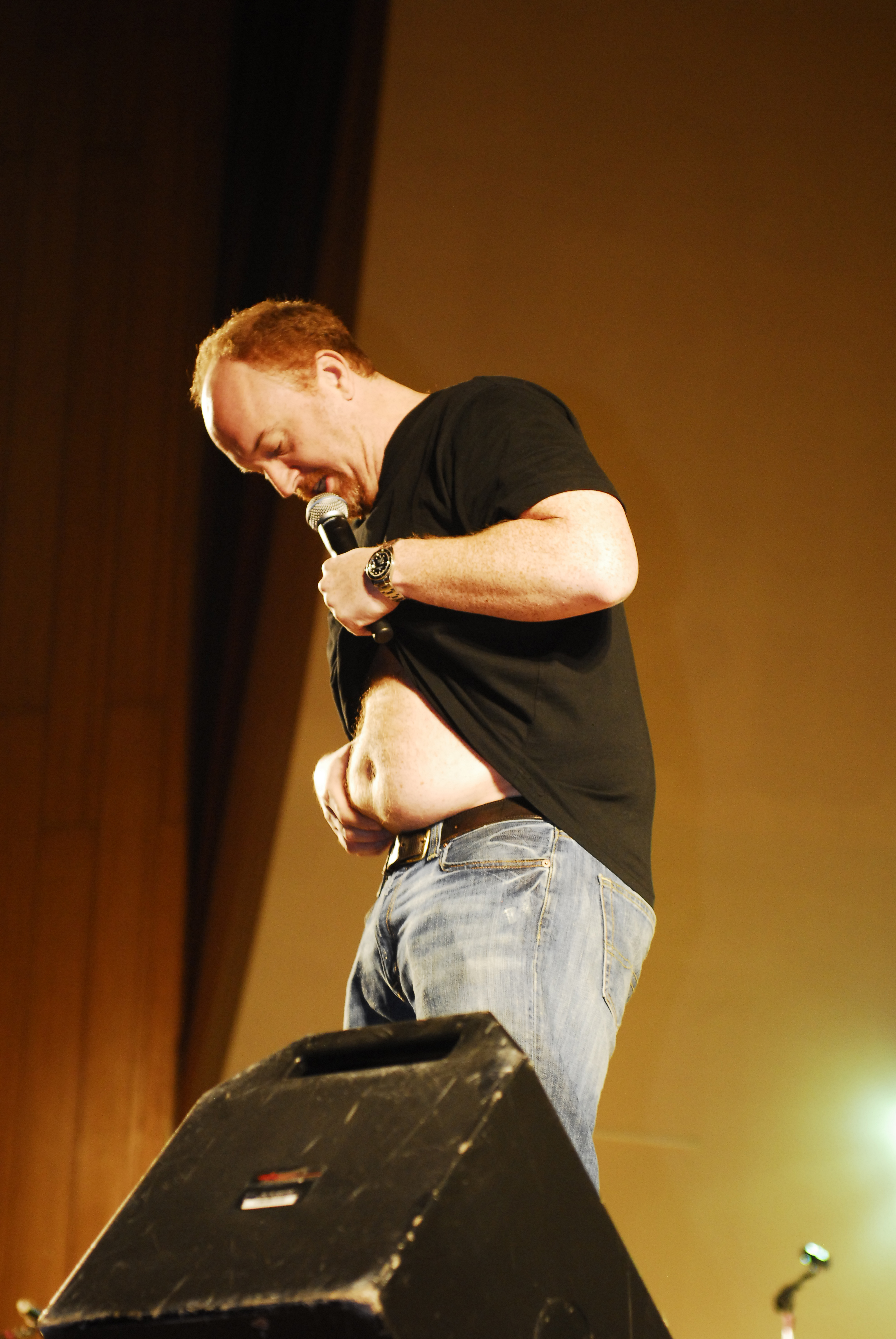 Comedian Louis CK performing at the Sgt. Maj. of the Army's Hope and Freedom Tour at Joint Base Balad, Iraq on Dec. 21.